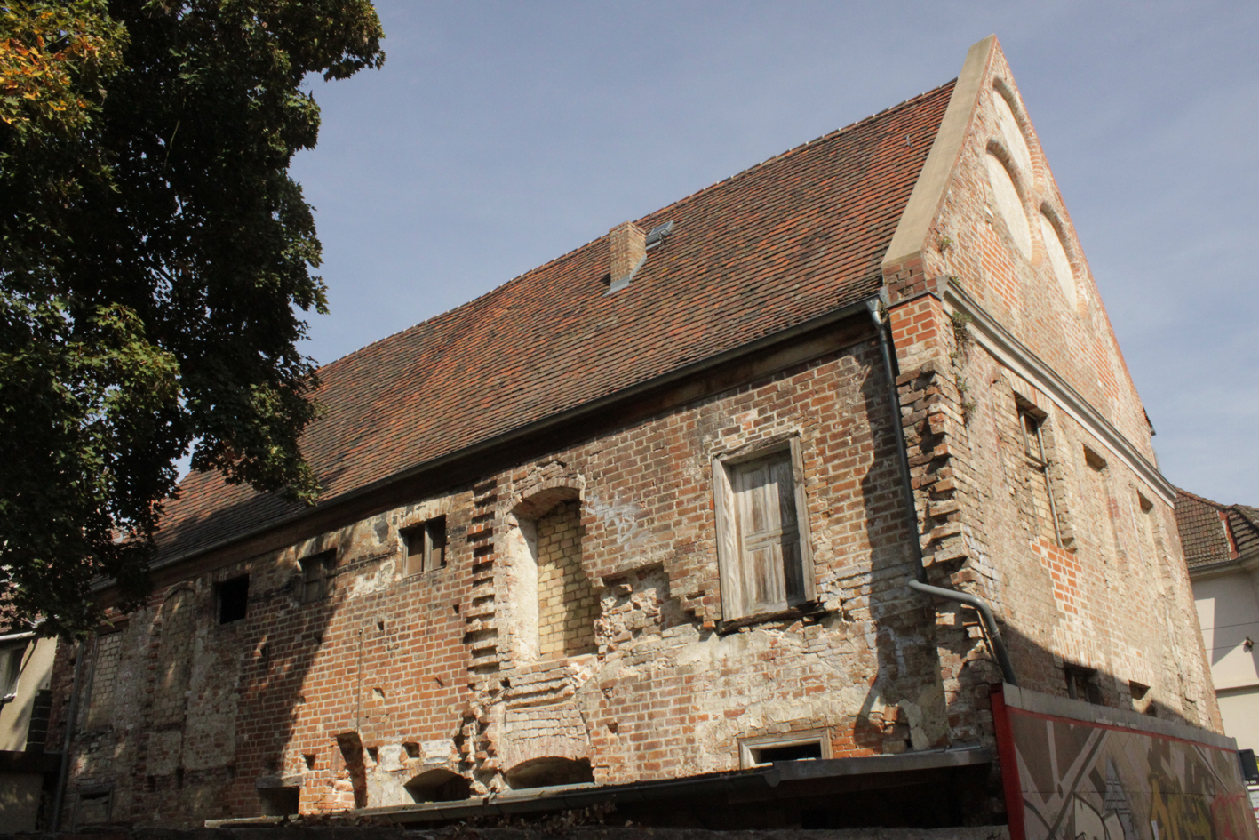 The Gothic House in Oldtown Brandenburg an der Havel, seen from south, before reconstruction. On the right the impressive gothic gable.